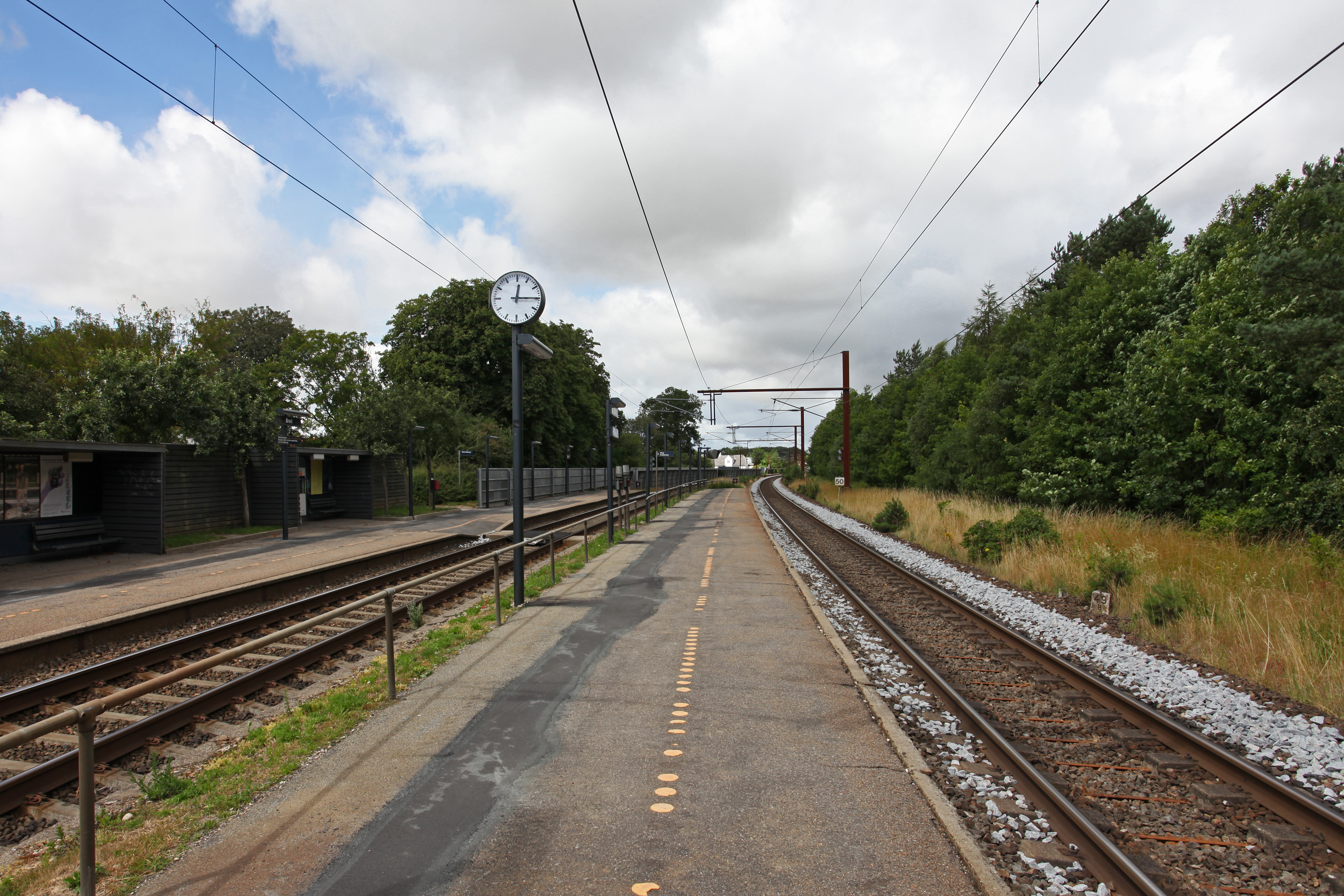 Picture of Bred Railway Station (Fyn - Denmark)